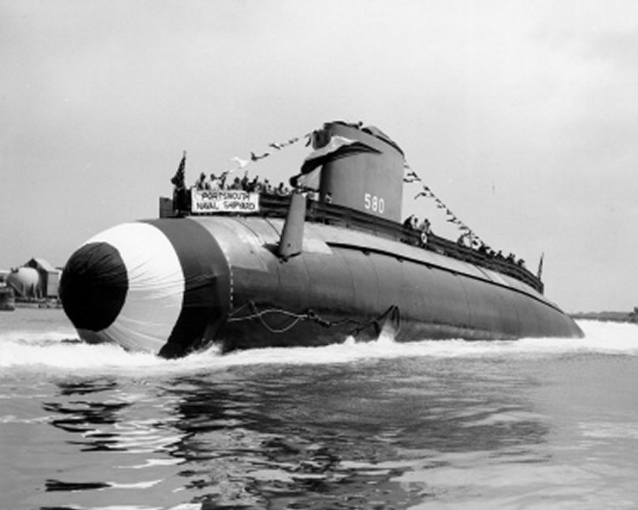 Launching of the USS Barbel (SS-580), 19 July 1958 at the Portsmouth Naval Shipyard.